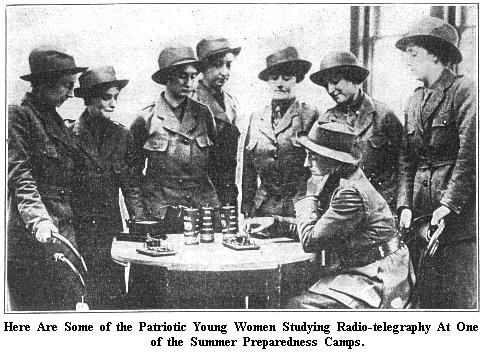 From The Electrical Experimenter, October, 1916, pages 396-397.